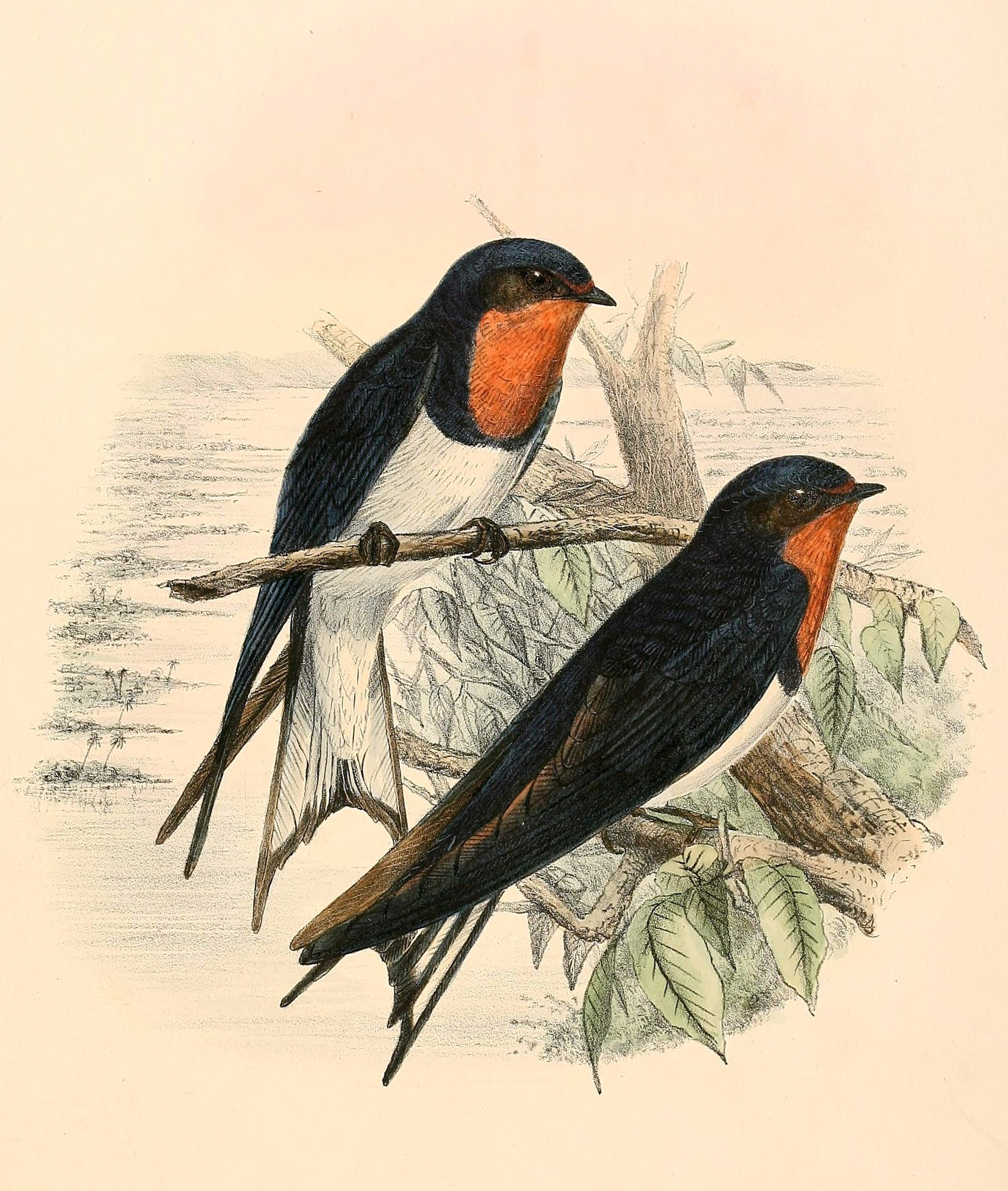 « Hirundo lucida » = Hirundo lucida (Red-chested Swallow)